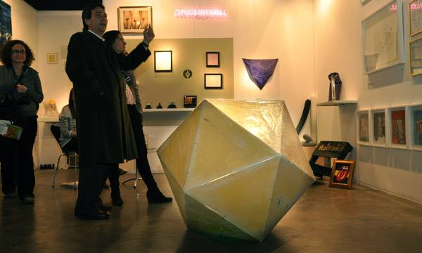 Seth Wulsin's sculpture, Infinity also hurts in Arteba